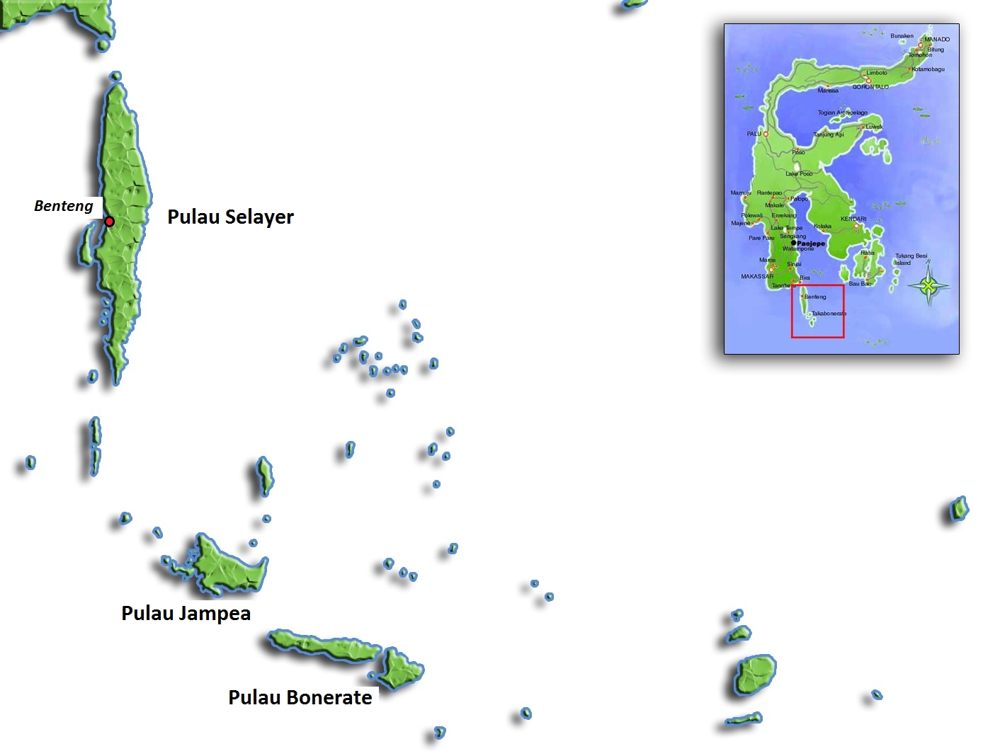 Map of the Selayer Islands and names of the main islands.